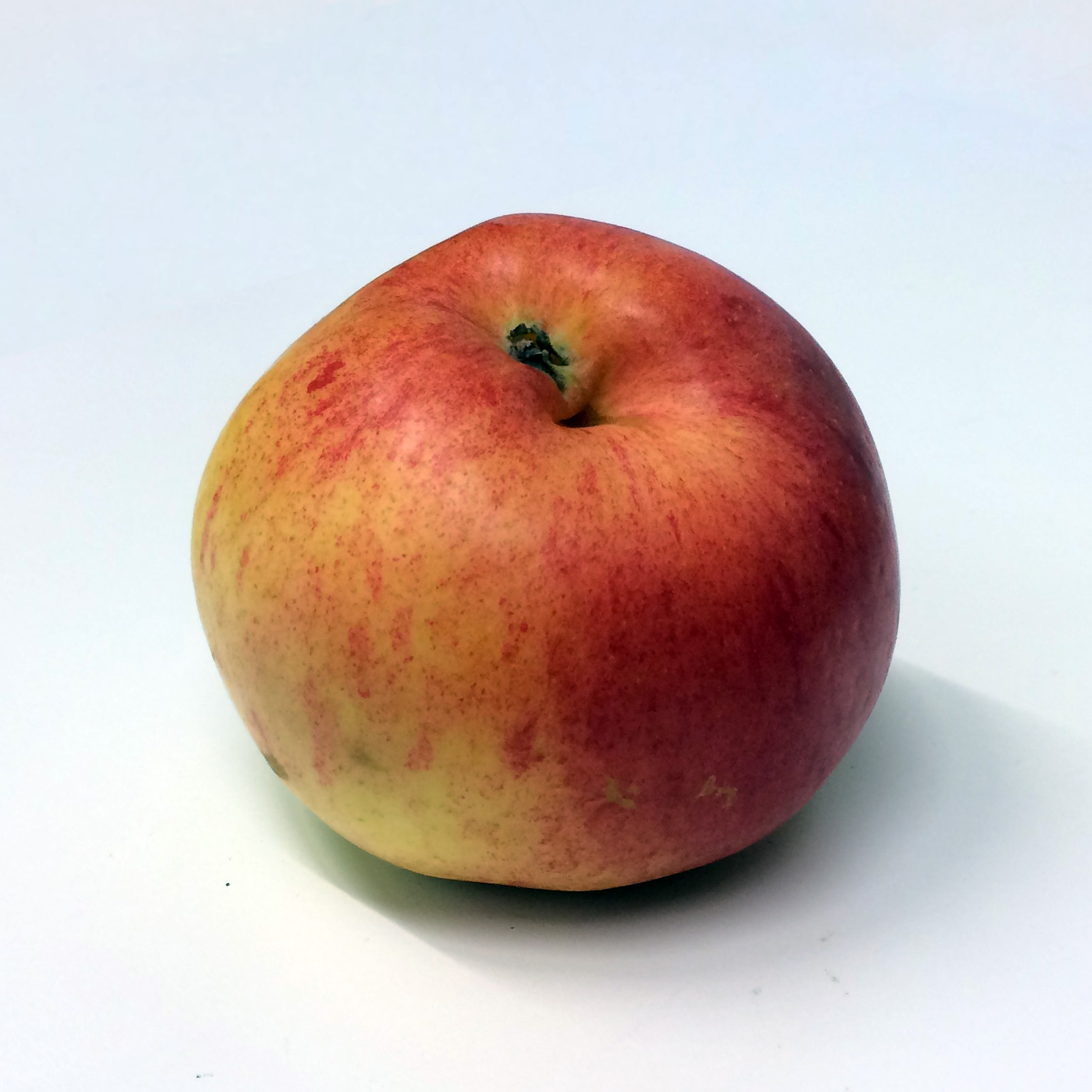 Apple of the cultivar Särsö, photographed in conjunction with the Apple Festival at Nordiska museet, Stockholm, Sweden in September 2014.